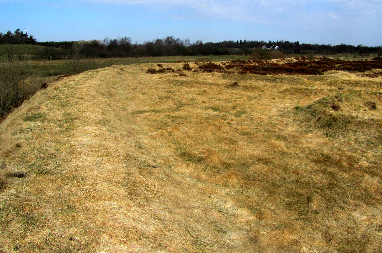 The Borremose fortification, showing the earth-rampart and remnants of housing sites.